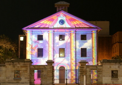 Hyde Park Barracks, Sydney during Macquarie Night Lights from 23 November to 25 December 2006